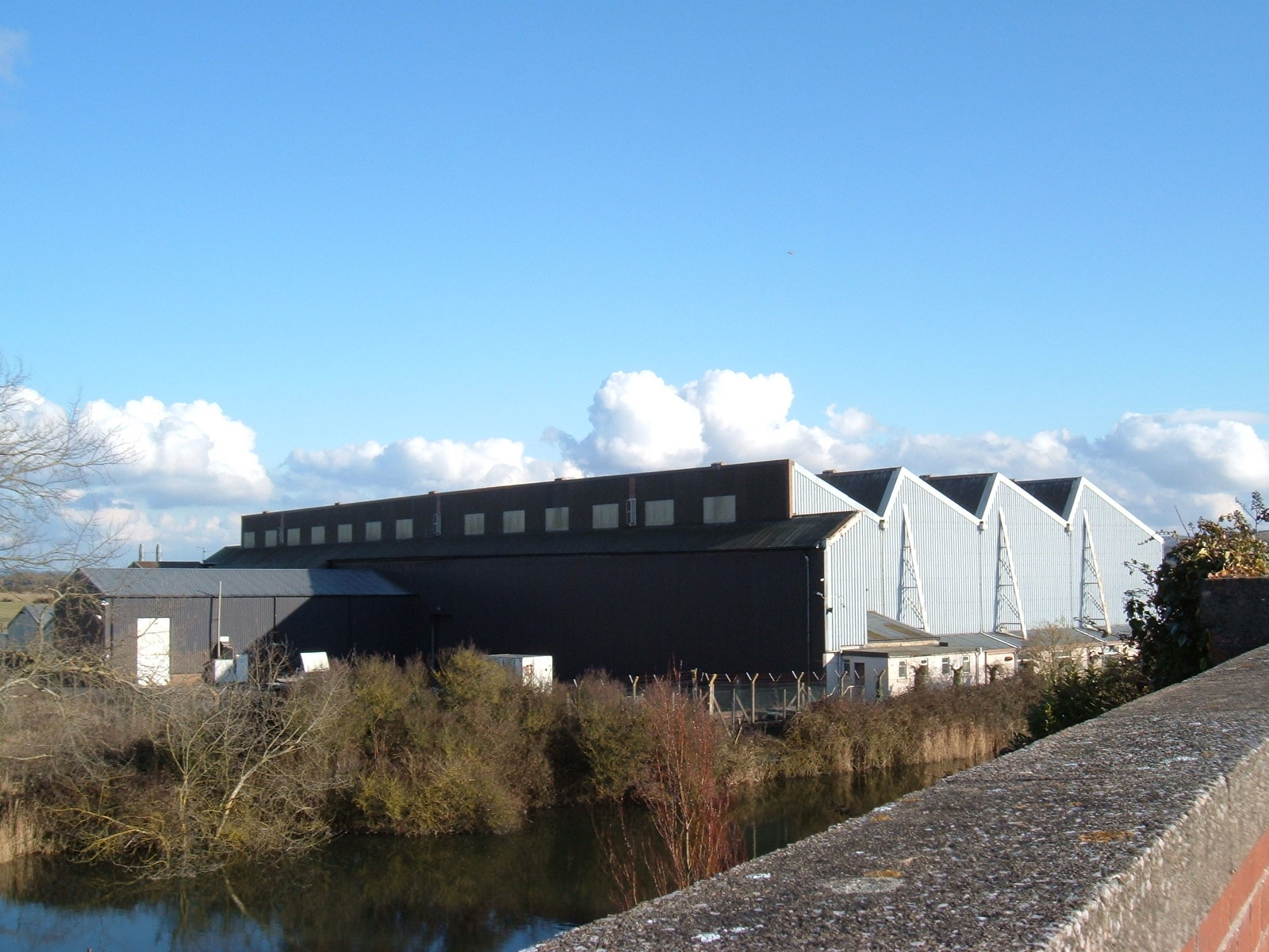 Old aircraft hangar This hangar has been here from before WWII probably dating from the 1930's, from about 1987 until recently it was used as a factory. If anybody has more information would like to hear it.